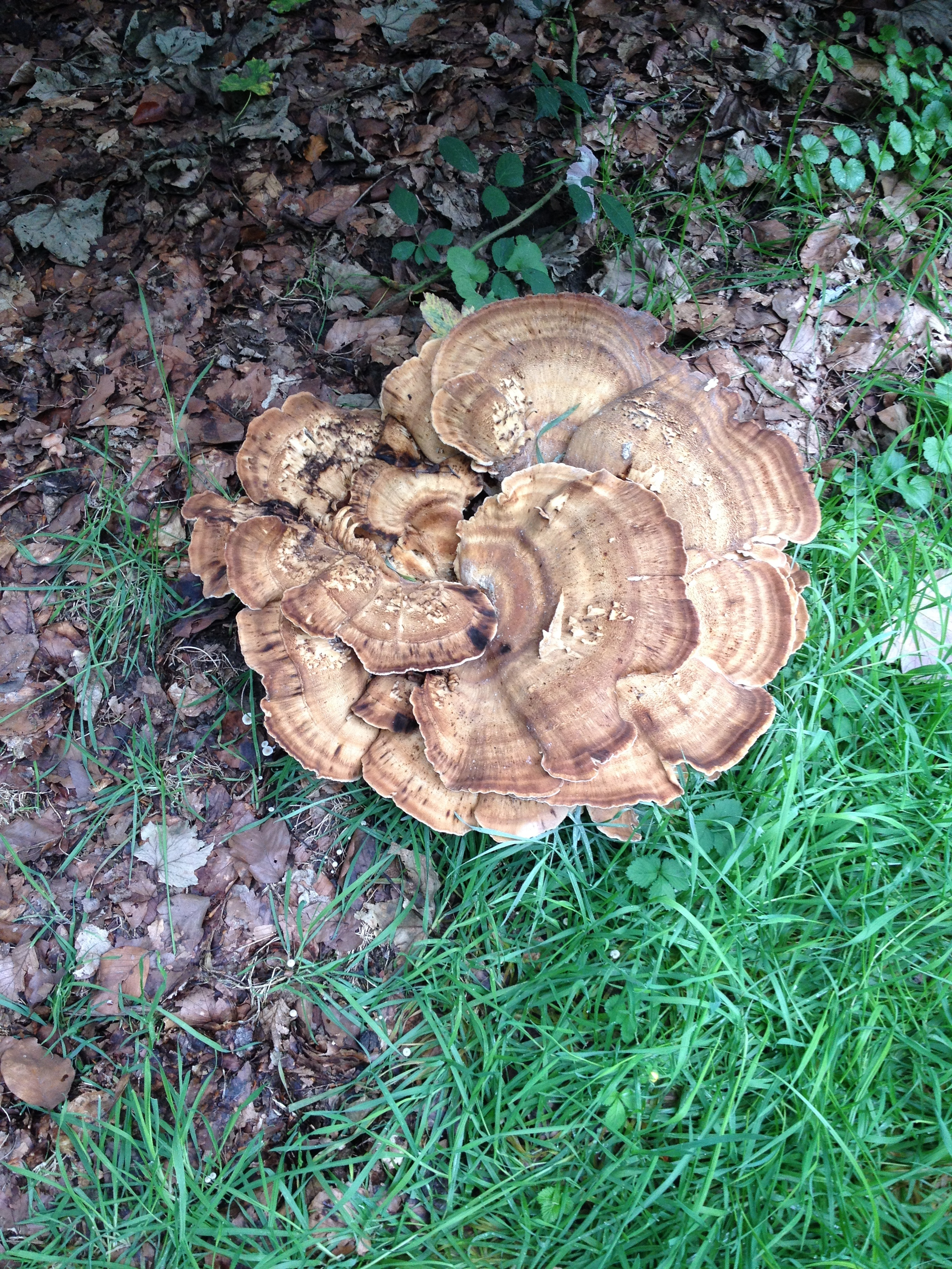 The fruiting body of the Giant Polypore, Meripilus giganteus taken at Antwerp's Nachtegalenpark